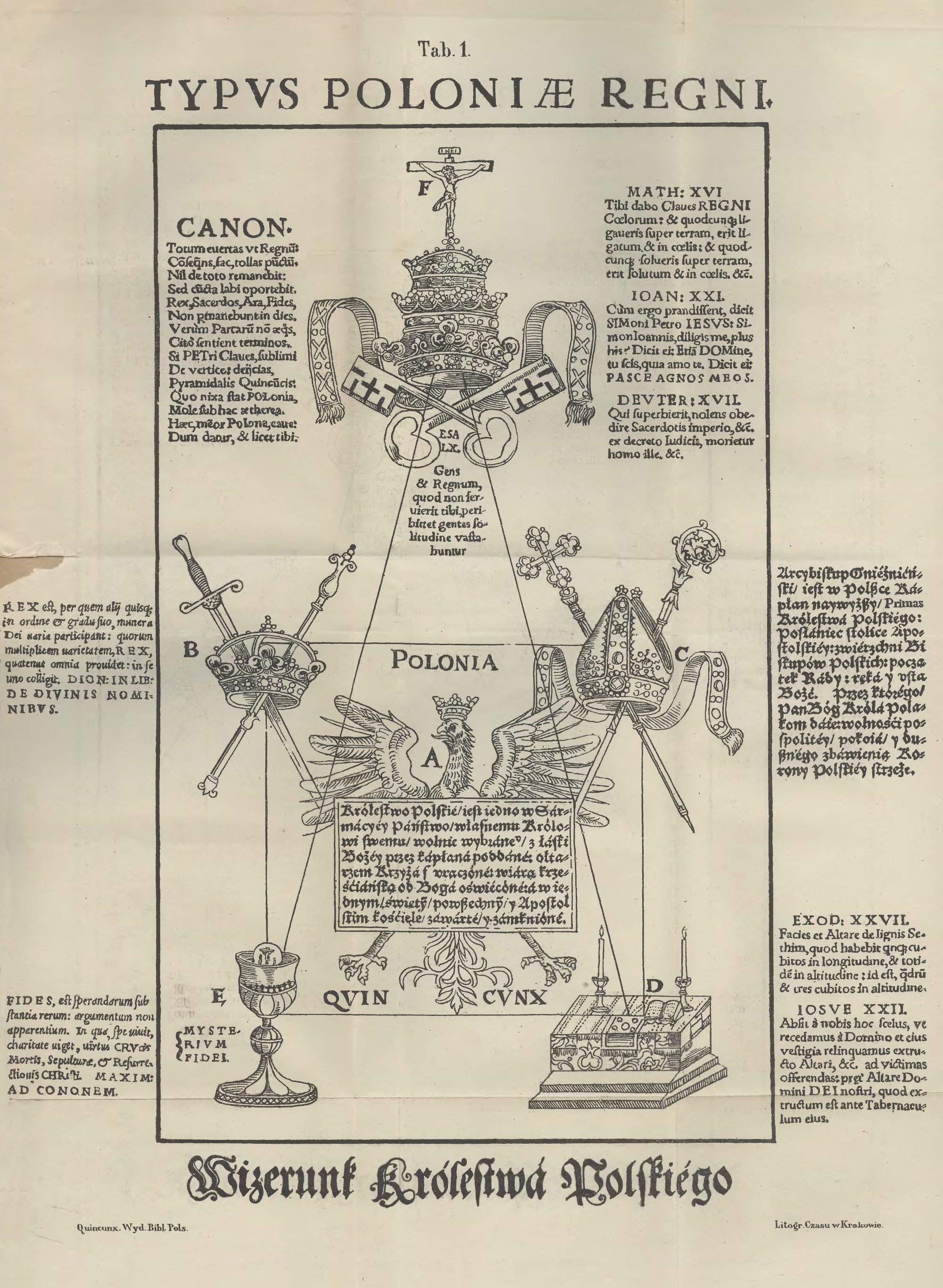 Title image from Quincunx by Stanisław Orzechowski.